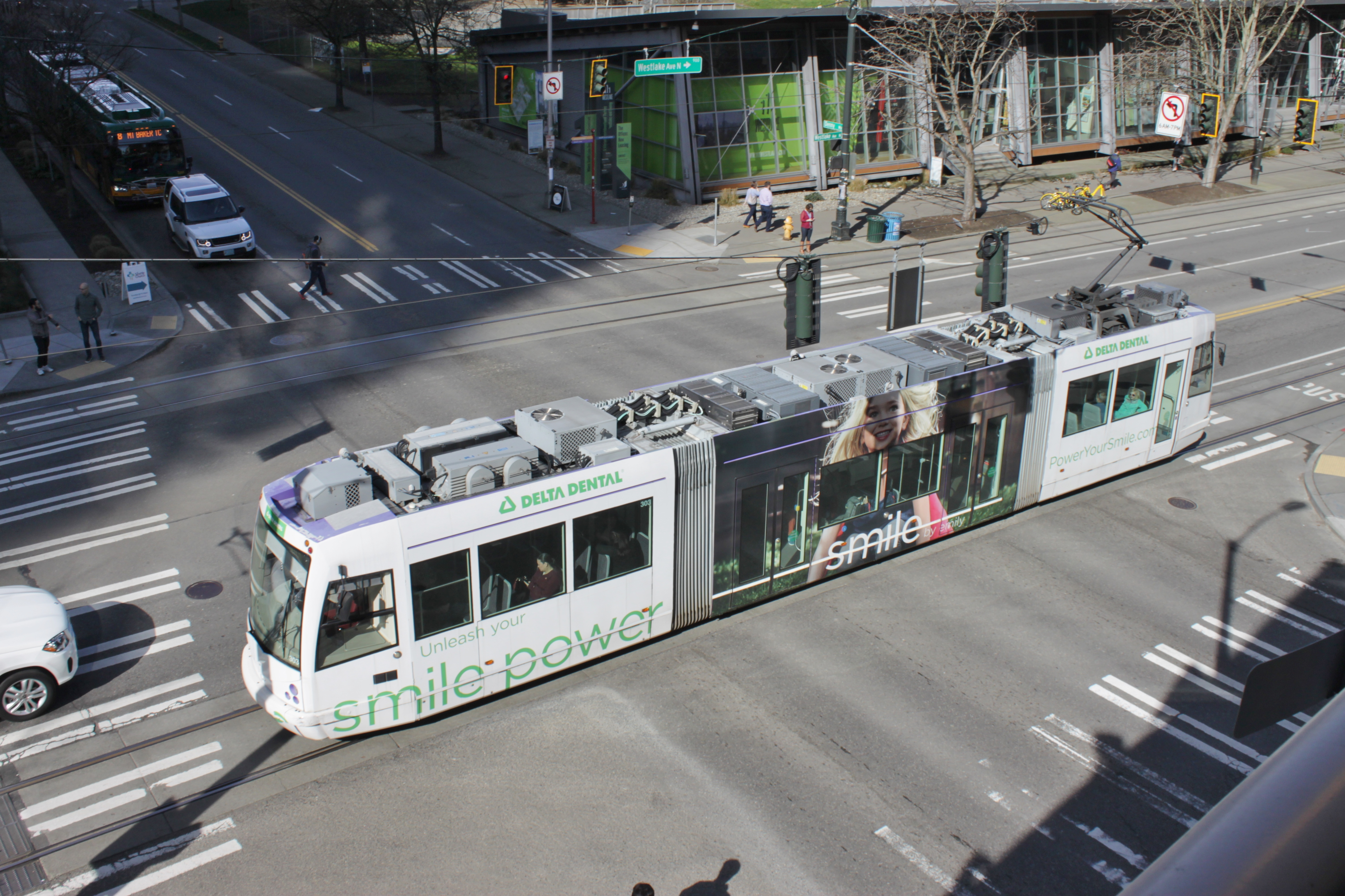 An Inekon tram on the South Lake Union Streetcar in Seattle, Washington, traveling northbound across Denny Way.